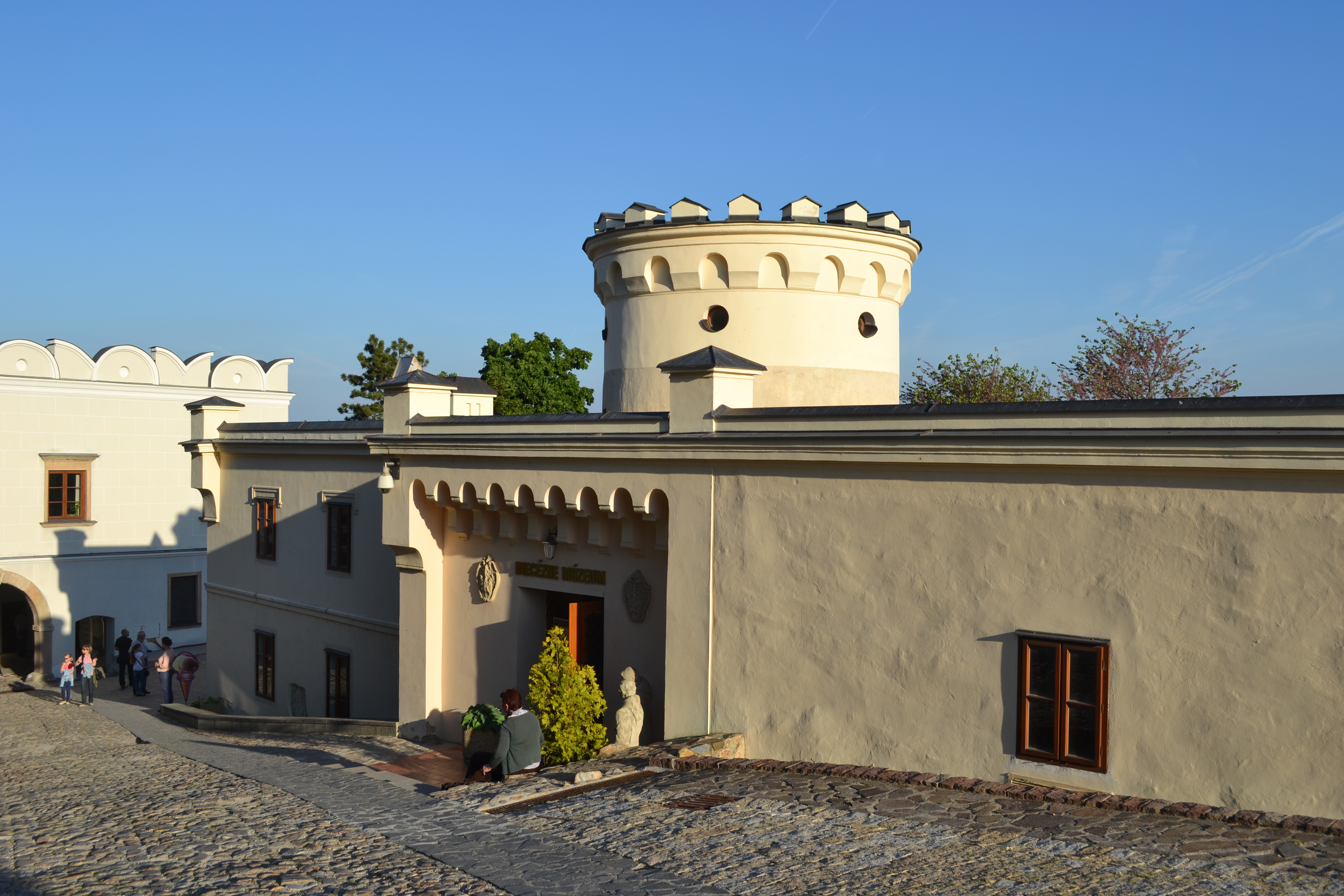 Diocesan Museum in NitraSlovenčina: Diecézne múzeum v Nitre